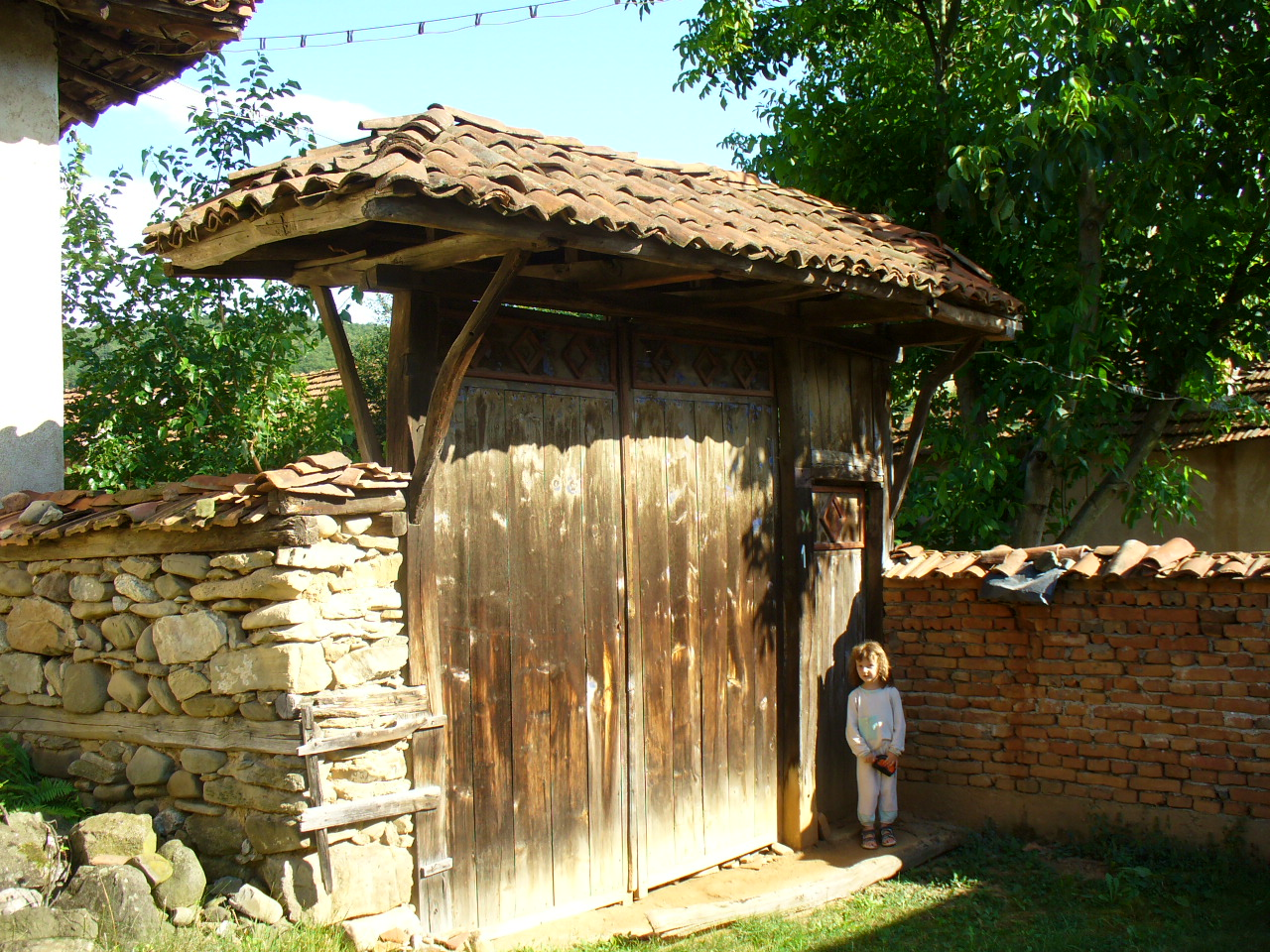 The 4 years old Kosko by a very old gate in Benkovski village.